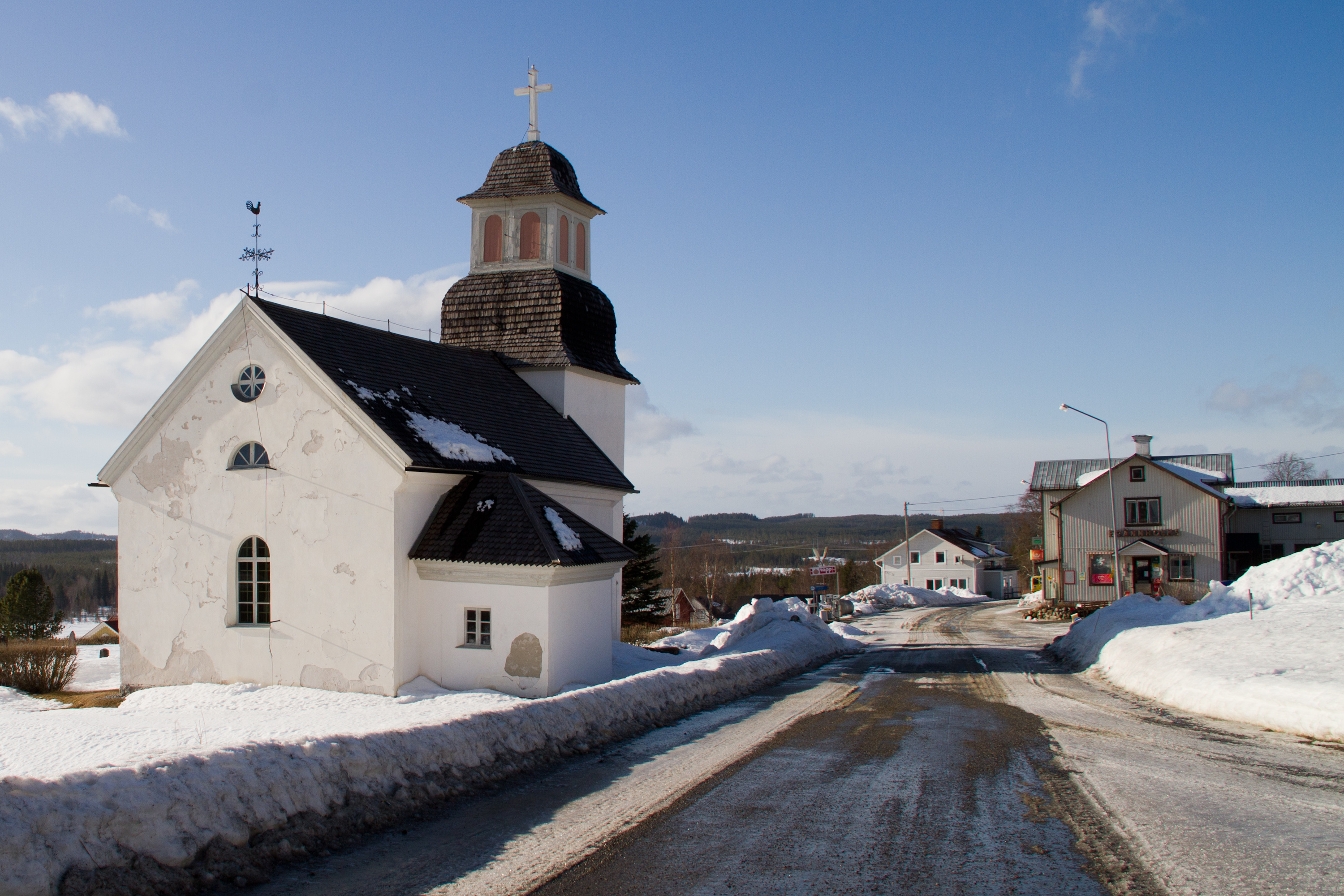 Borgvattnet in Jämtland, Sweden, with the church on the left.